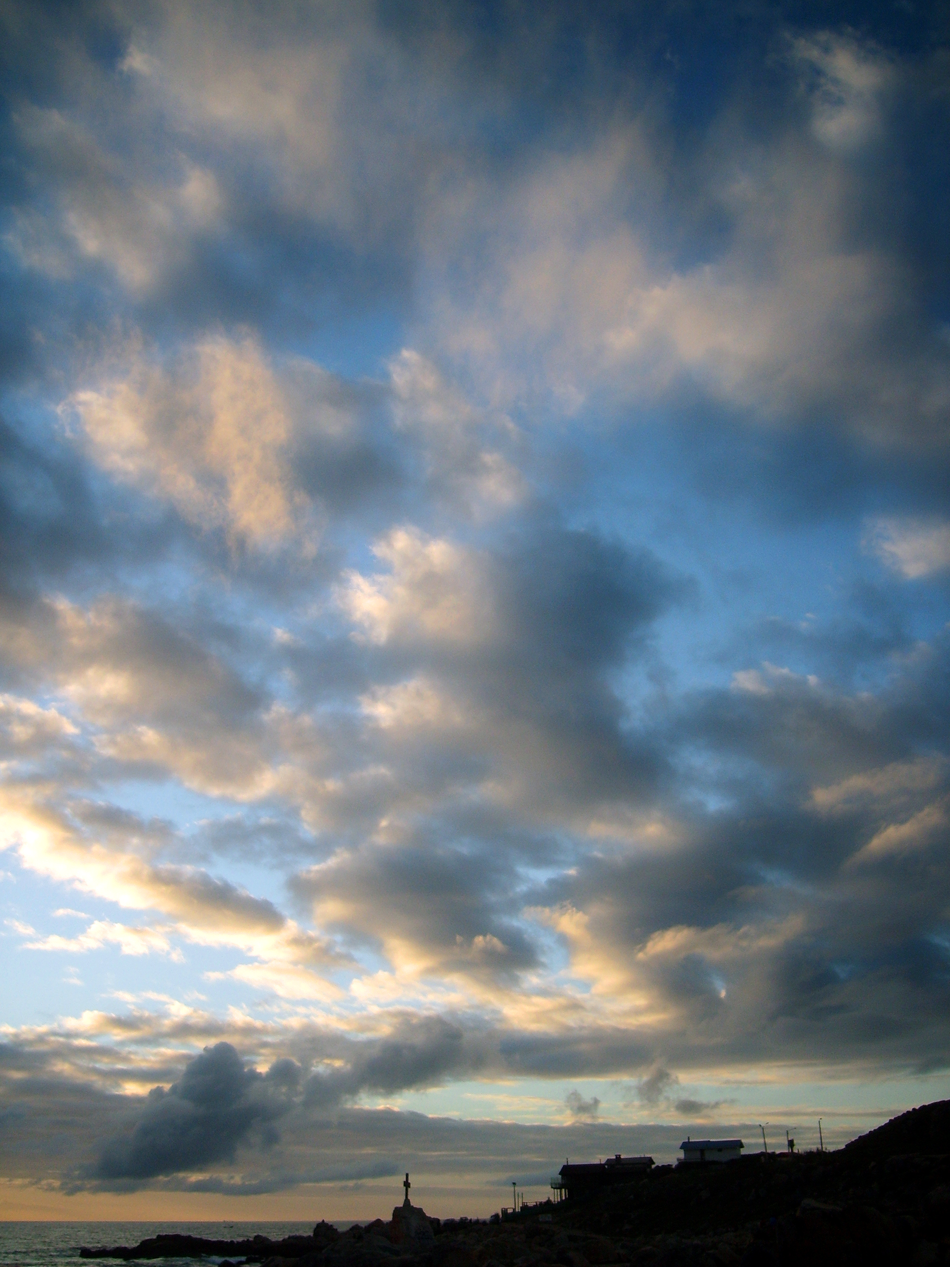 Sunset at Las Conchitas beach, El Quisco, Chile. Image taken on September 19, 2007.